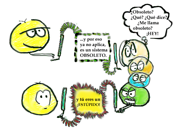 Believing that a commentary brings over of certain topic is a personal allusion.